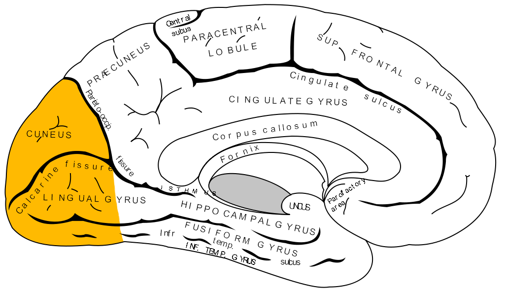 Occipital lobe in medial surface. It's boundary is defined by two lines. Parieto-occipital sulcus and Basal parietotemporal line (artificial line which connects marginal end of the parieto-occipital sulcus with the preocipital notch.) Michio Ono, Stefan Kubik, Chad D. Abernathey "Atlas of the Cerebral Sulci" George Thieme Verlag （1990） ISBN 9780865773622 pp.8-9.